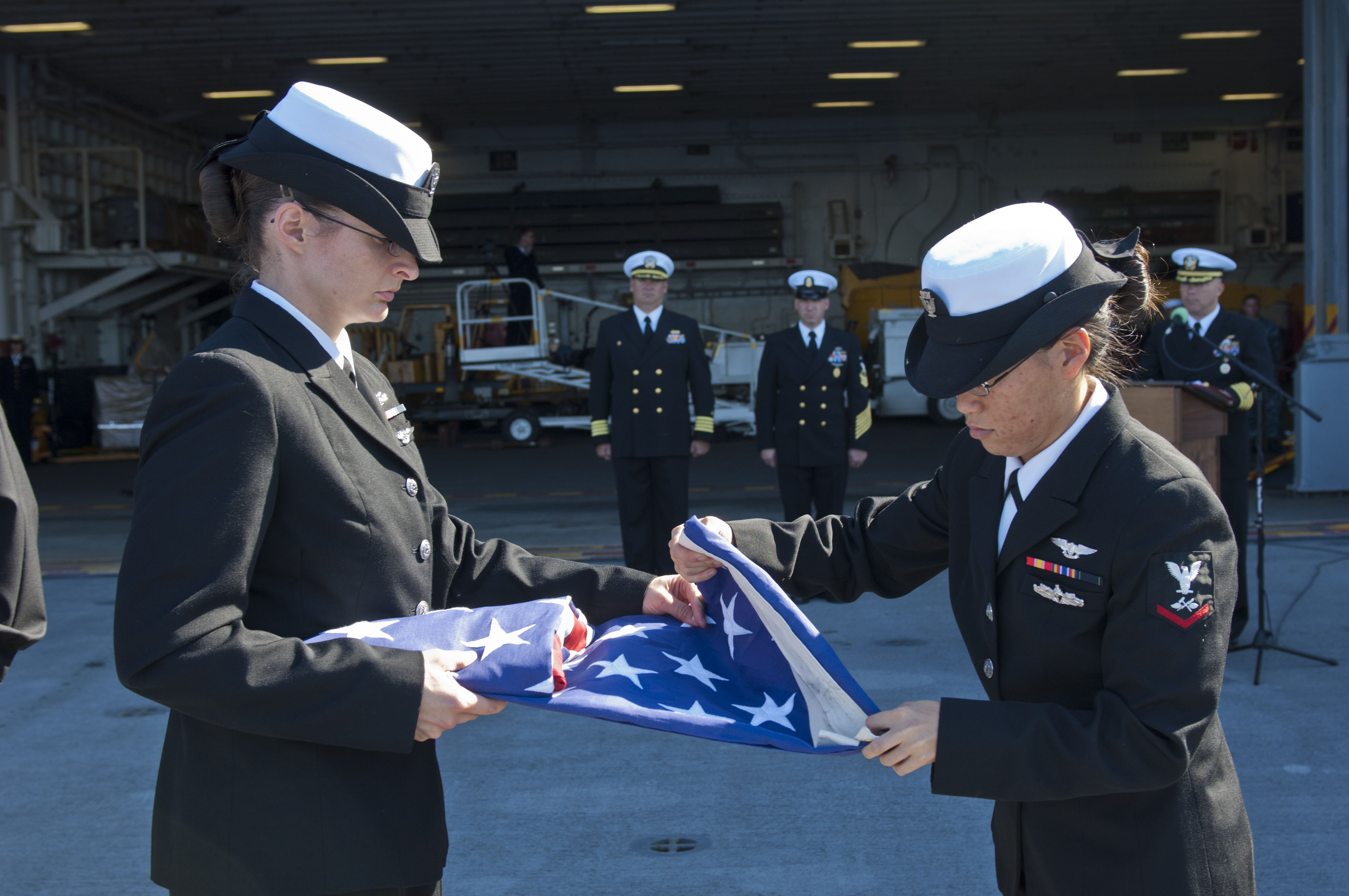 ATLANTIC OCEAN (Oct. 23, 2012) Cryptologic Technician (Maintenance) 3rd Class Alexa Martin, left, and Aviation Support Equipment Technician 3rd Class Lisa McDonald fold an American flag during a burial at sea ceremony aboard the multi-purpose amphibious assault ship USS Wasp (LHD 1). Wasp committed 17 former service members to the sea during this time-honored tradition. The U.S. Navy has a 237-year heritage of defending freedom and projecting and protecting U.S. interests around the globe. Join the conversation on social media using #warfighting. (U.S. Navy photo by Seaman Andrew B. Church/Released) 121023-N-UE577-248 Join the conversation navylive.dodlive.mil